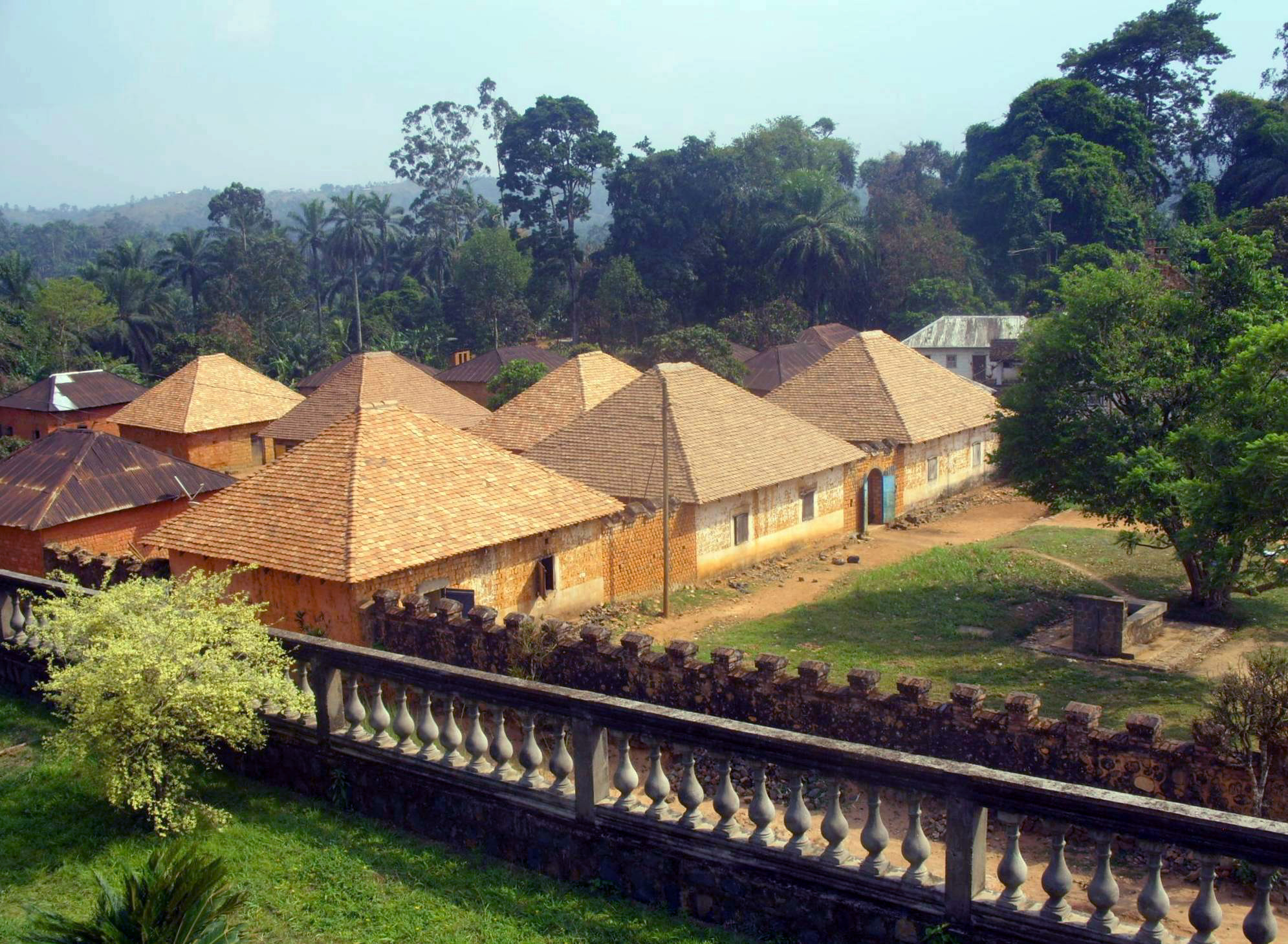 Bafut Palace - EcoVillage - Cameroon